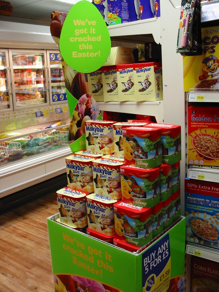 A point of sale display in a local store. Shaurn can't get enough of Sales Diplays :)